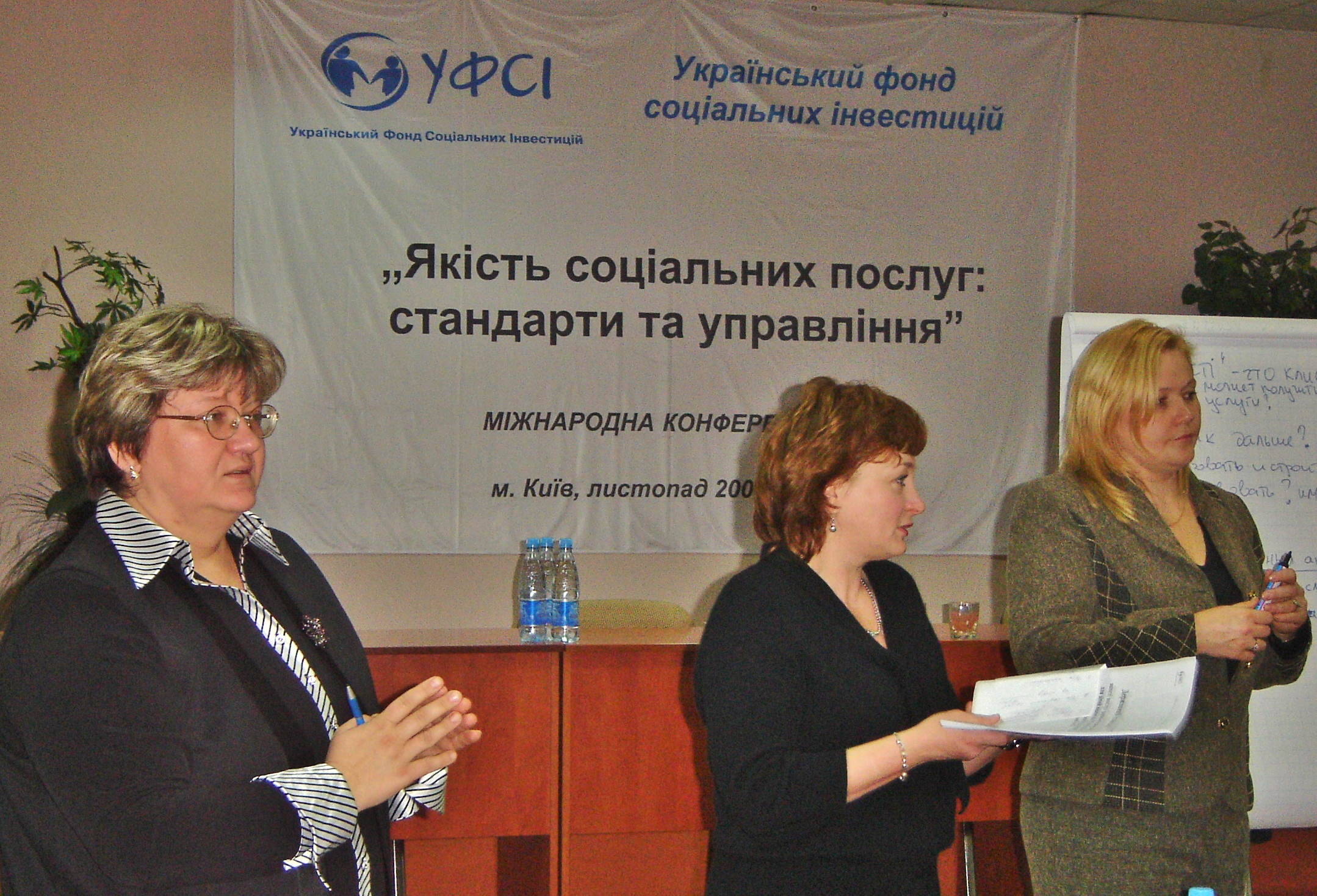 Presentation of the standards of "Early Intervention" Social Service on the conference of the Ukrainian Social Investments Fund. Kyiv, Nov. 2006. Svitlana Demchenko, Hanna Kukuruza, Halyna Herasym